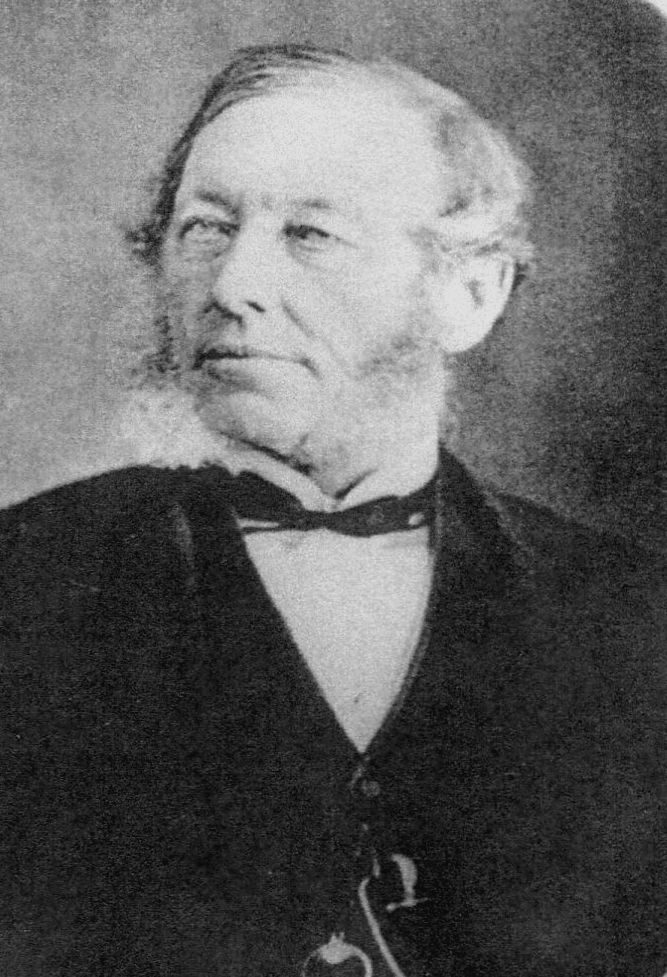 Photograph of Edwund Sharpe